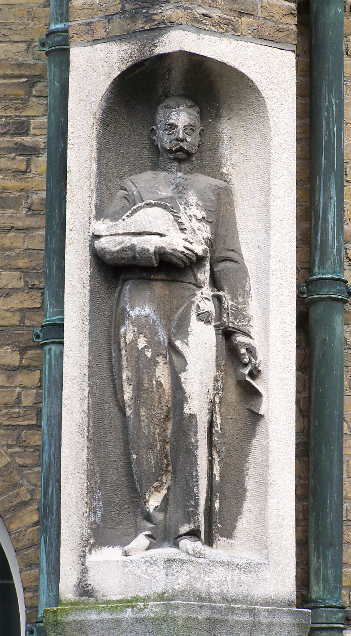 Relief of Eduard Otto Joseph Maria van Hövell tot Westerflier, Gouvernor of Limburg from 1918 till 1935. Made by Charles Vos in 1935 and placed at the Gouvernement (by G.C. Bremer) at the Bouillonstraat in Maastricht.